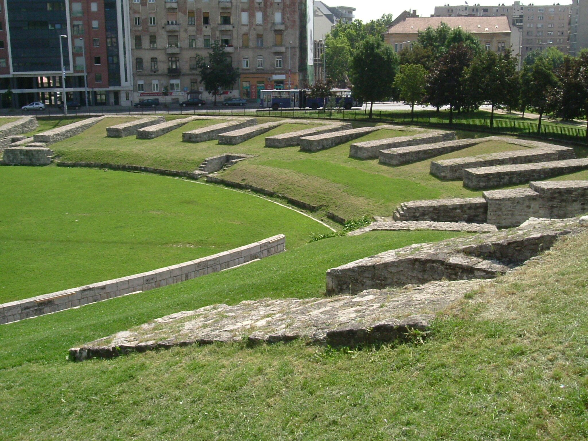 Amphitheater № 2 of the Military Town, Nagyszombat Street - Aquincum - Budapest - Hungary - Europe. Theese are ruins of one of the two amphitheatres of Aquincum, capital of Pannonia inferior.